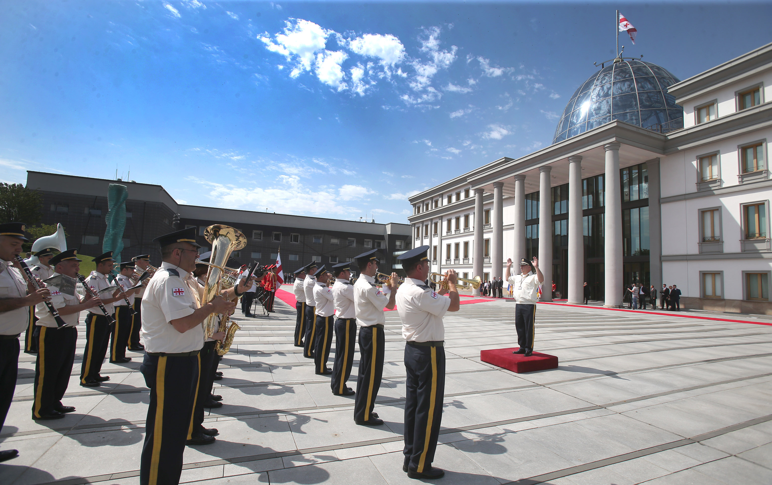 The Band of the Georgian National Guard in at the Presidential Residentce in Tbilisi.